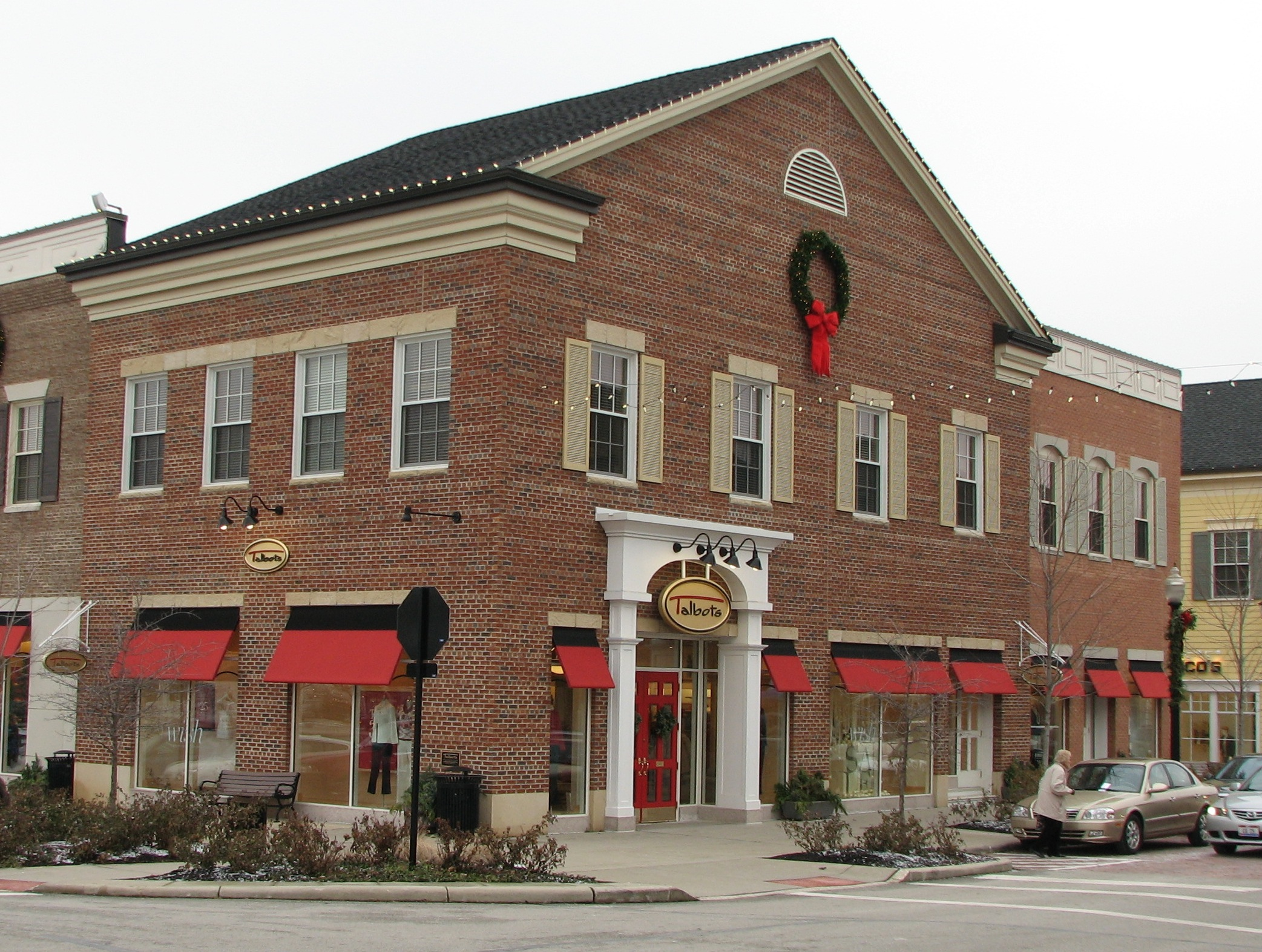 Talbots in Hudson, Ohio.